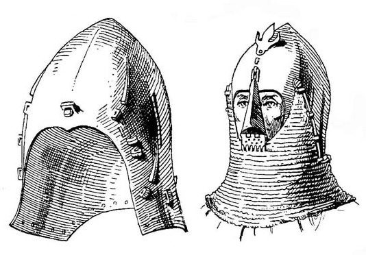 Bascinets (XIVth century). Left, Italian, in the Museo Poldi Pezzoli, Milan. Right, after Viollet-le-Duc.